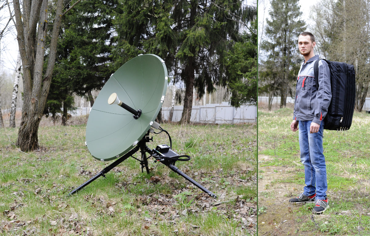 Manpack satellite terminal SNARK-100R